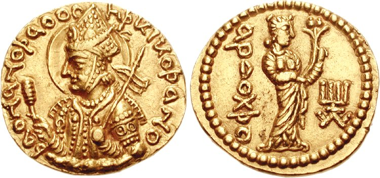 Coin of the Kushan king Huvishka